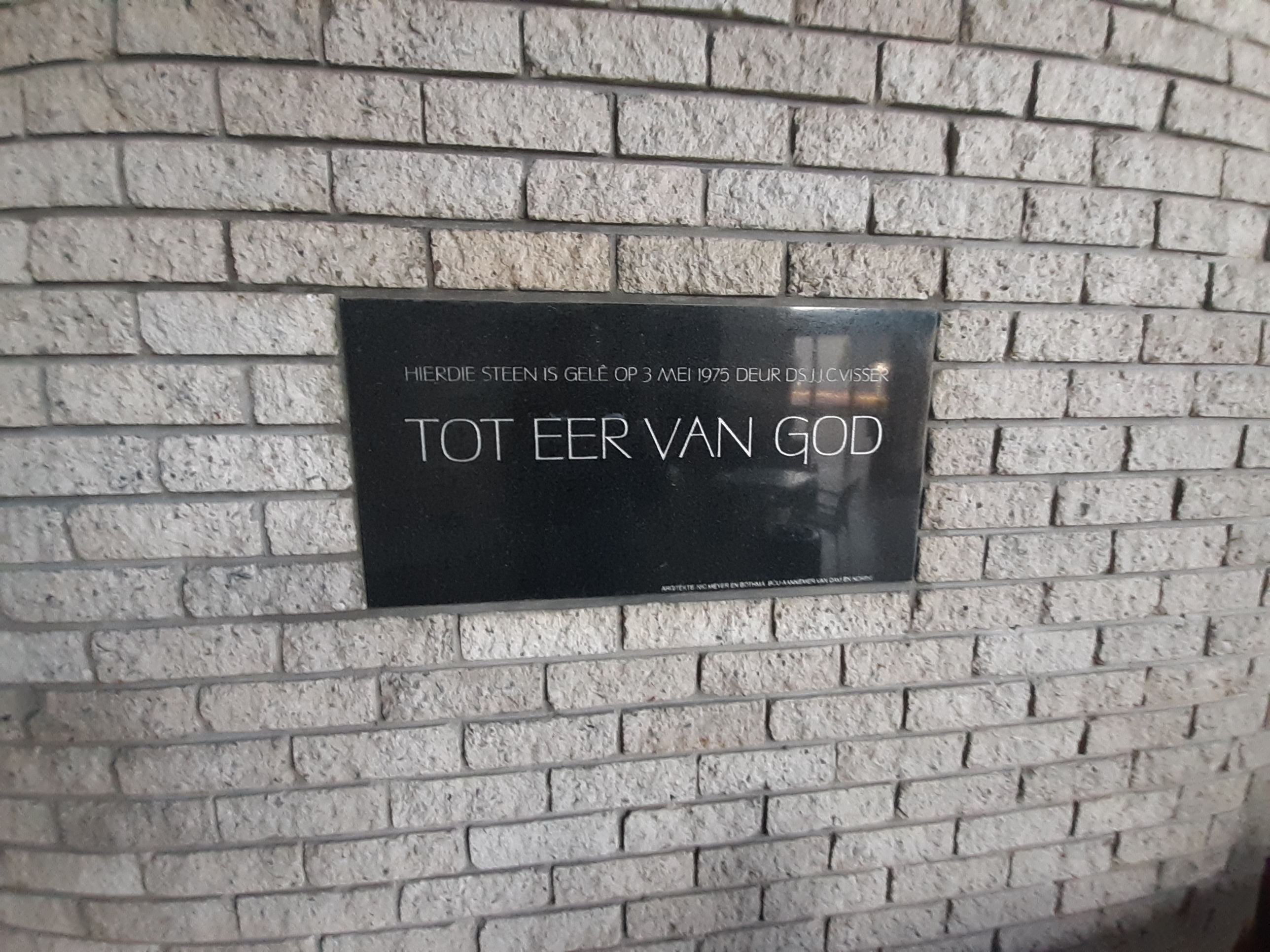 The stone that was revealed when the church building was opened